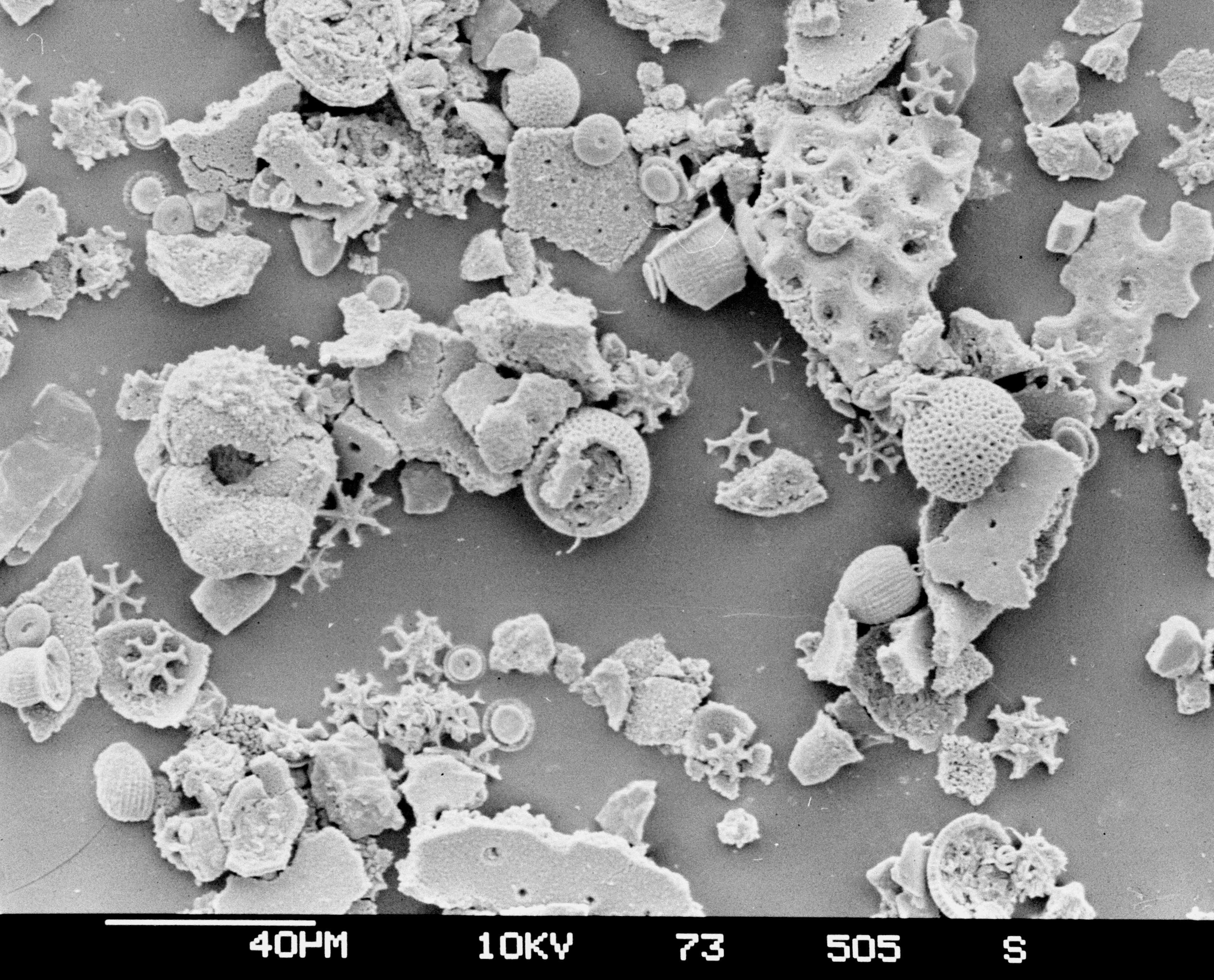 Microfossils from a sediment core of the Deep Sea Drilling Project (DSDP), Sediment sample with microfossils